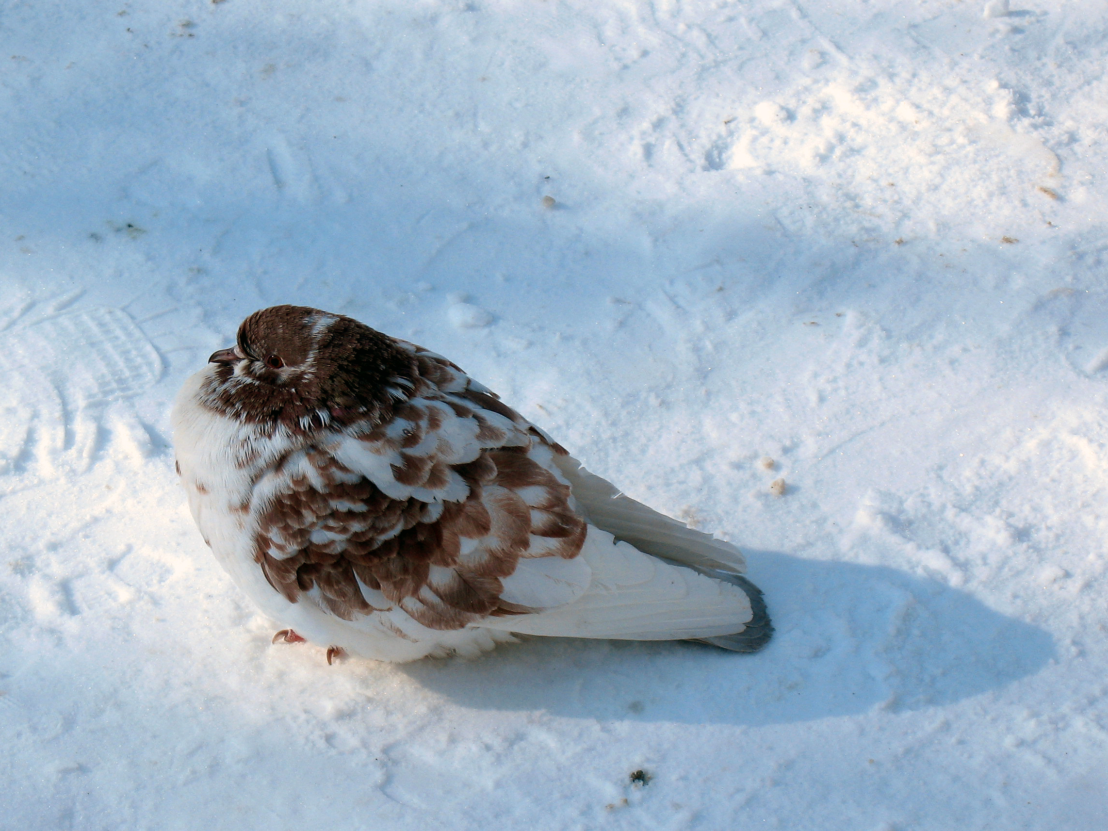 Columba livia in winter in Kharkov park.